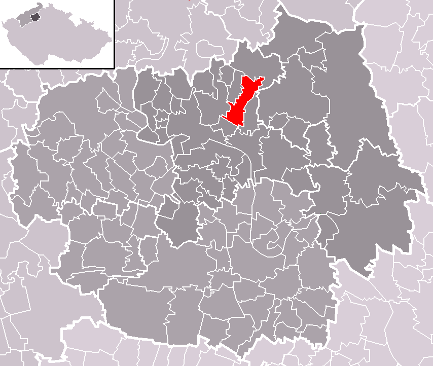 Location of Ploskovice municipality within Litoměřice District and administrative area of Litoměřice as a Municipality with Extended Competence.